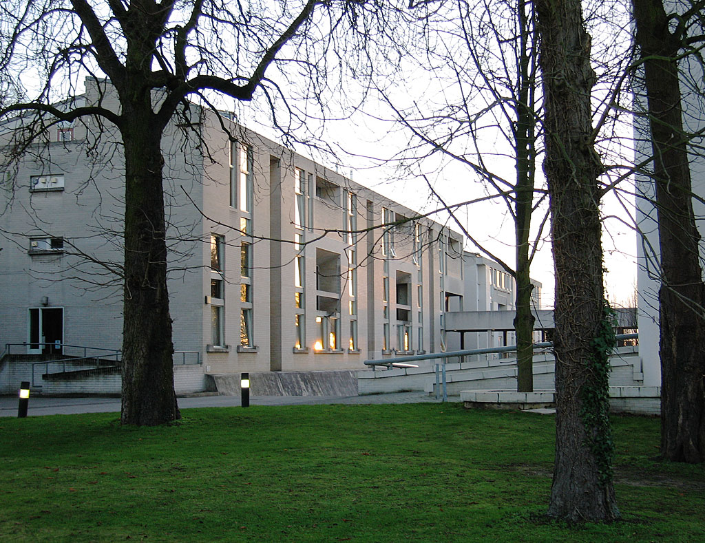 New Hall College, Cambridge One of the accommodation buildings of New Hall College Location: Huntingdon Road, Cambridge